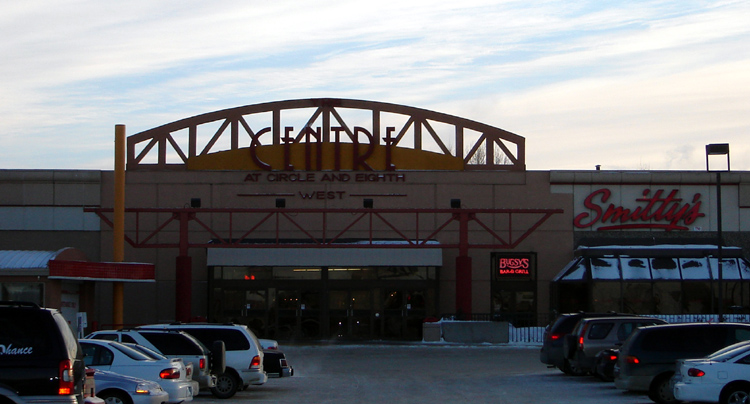 Mall at Circle and 8th, West, Lakewood Suburban Centre, Lakewood SDA, Saskatoon, Saskatchewan, Canada